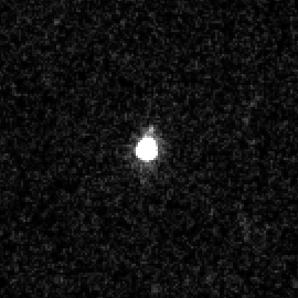 2003 AZ84 (center) and its possible satellite